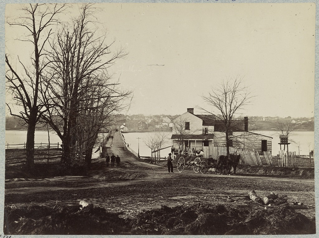 Summary: Photograph shows Benning Bridge across Anacostia River.